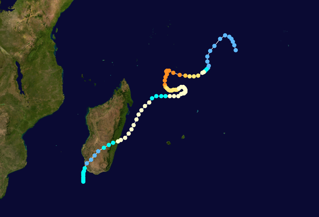 Cyclone Alibera (1989) track. Uses the color scheme from the Saffir-Simpson Hurricane Scale.